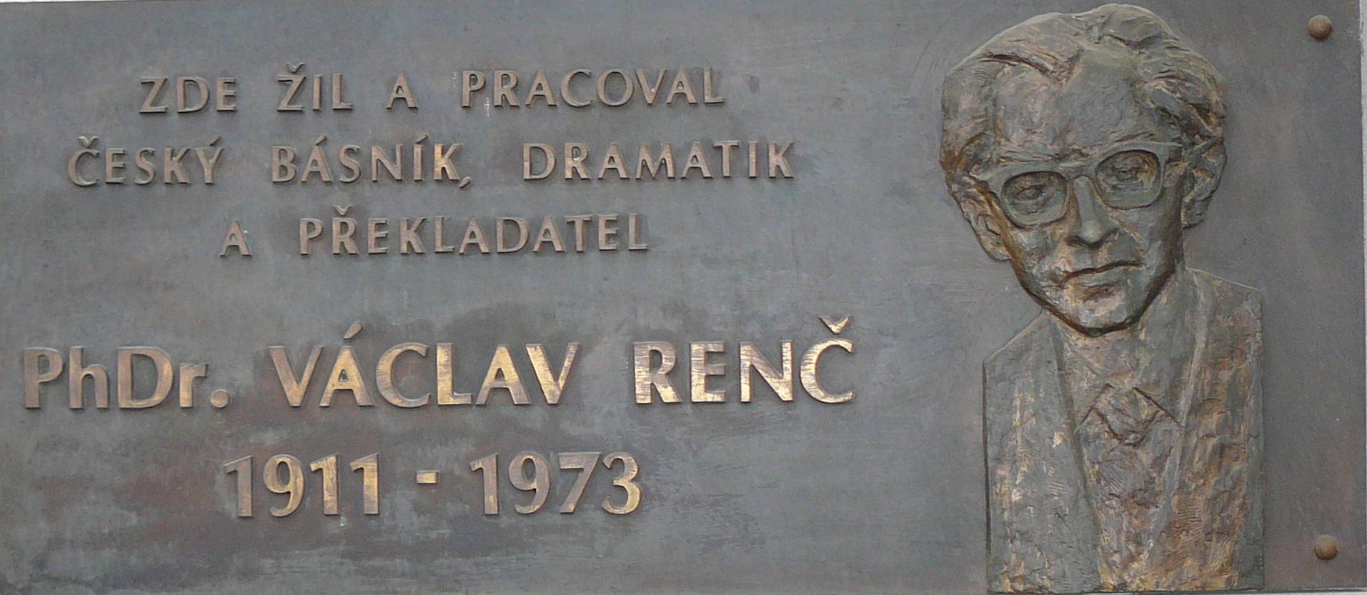 memorial plaque of Václav Renč on the town library in Fryšták with inscription: "Here lived a worked Czech poet, dramatist and translator PhDr. VÁCLAV RENČ 1911 - 1973".